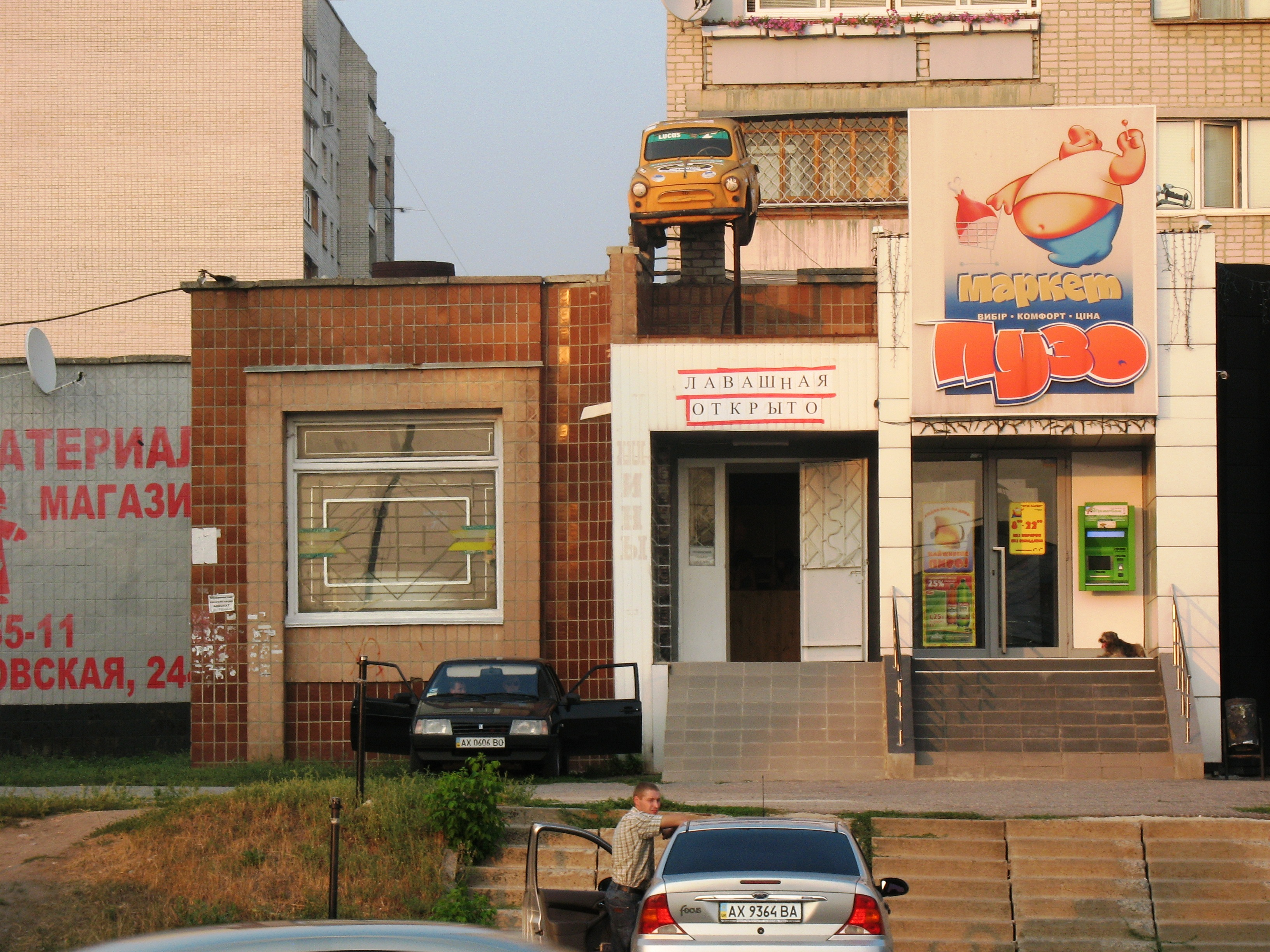 Kharkov, ZAZ-965, 2004.